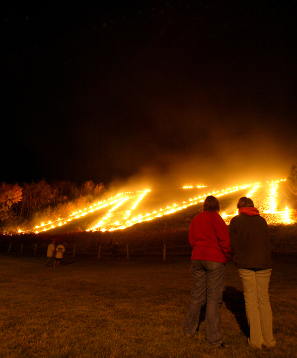 Two UW-Platteville students stand in front of the lantern lit Platte Mound M during the annual "M" Ball.